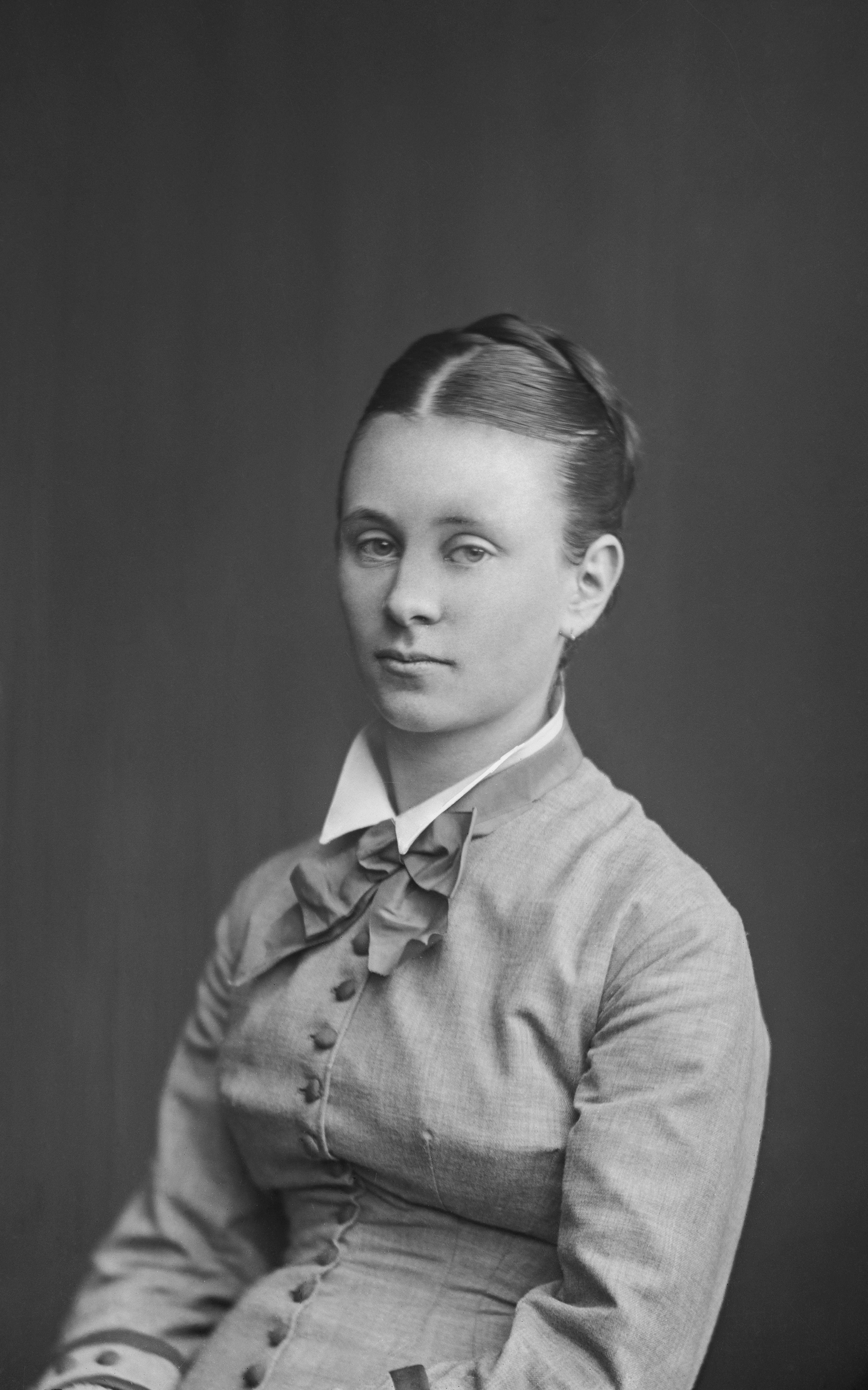 Gustav Paulig's wife Bertha Paulig